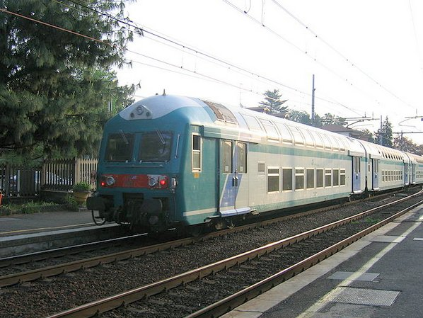 Duepiani (Double decker) pilot car. Magenta (MI), Italy